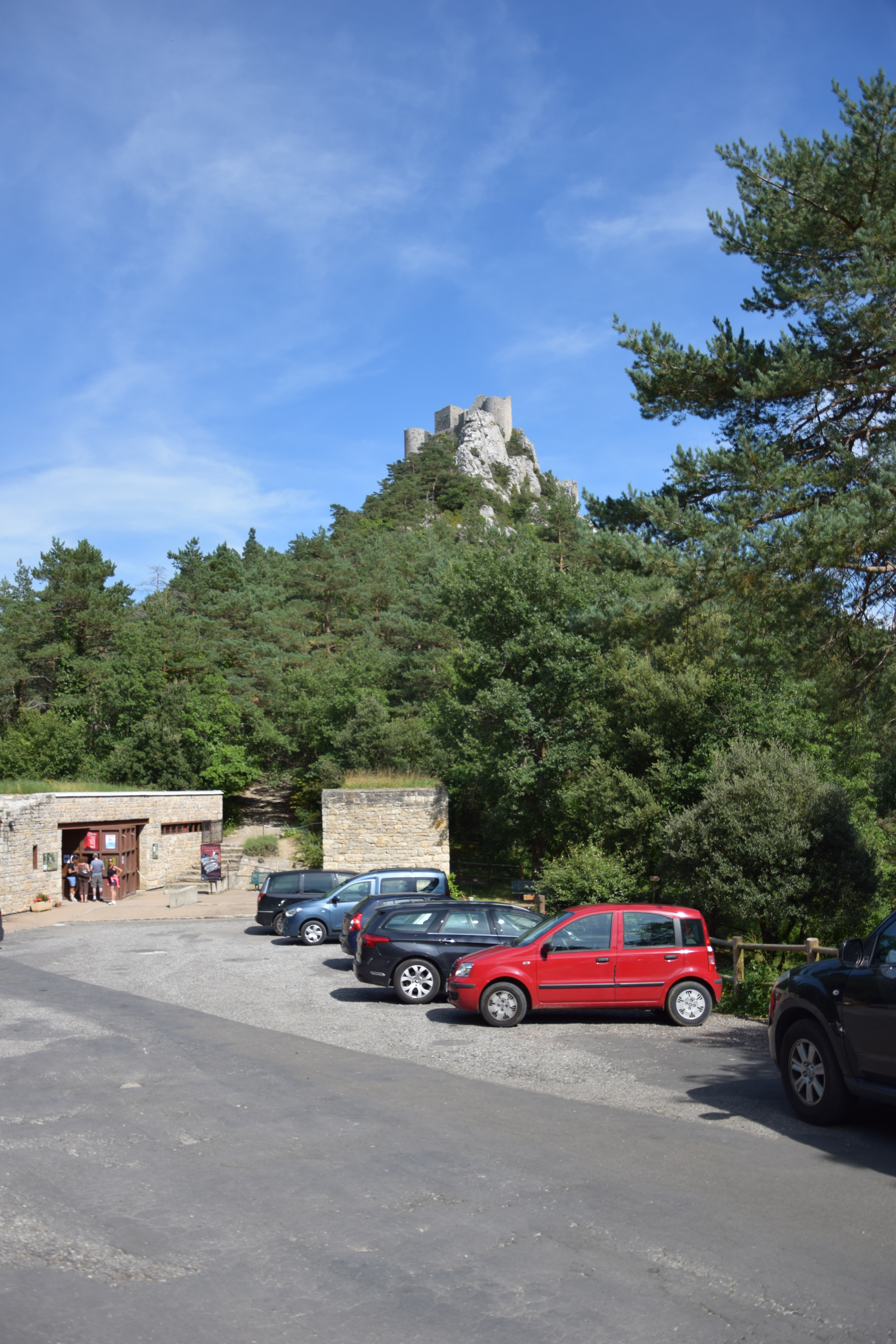 Castle of Puilaurens